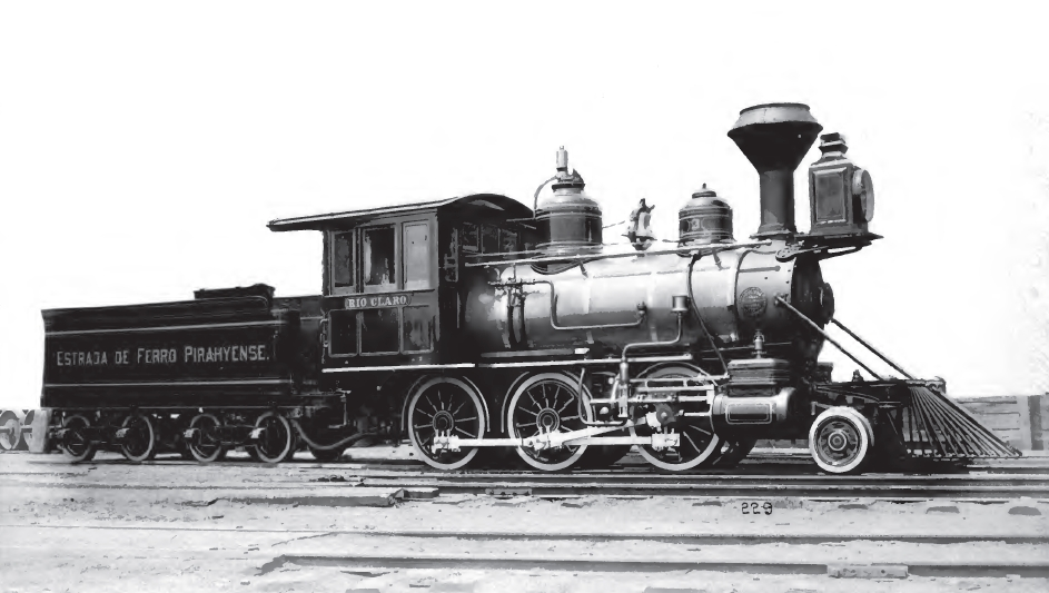 Locomotive Rio Claro the E. F. Pirahyense of publishing the book The Baldwin Locomotive Works - Illustrated Catalogue of Narrow-Gauge Locomotives, 1885 pg. 16